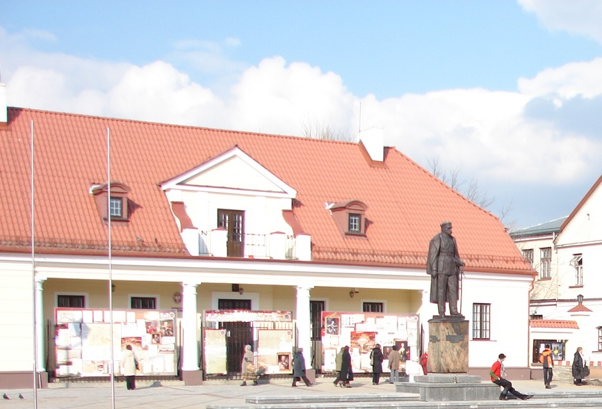 State Archive in Białystok